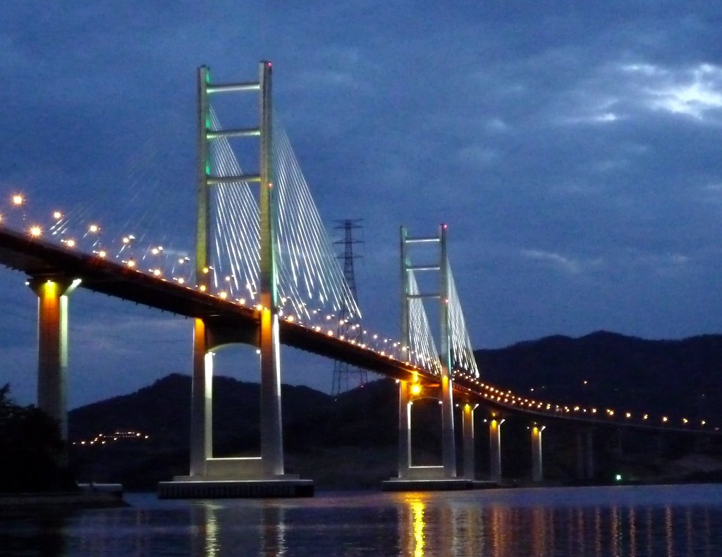 Masan Changwon Bridge, South Korea